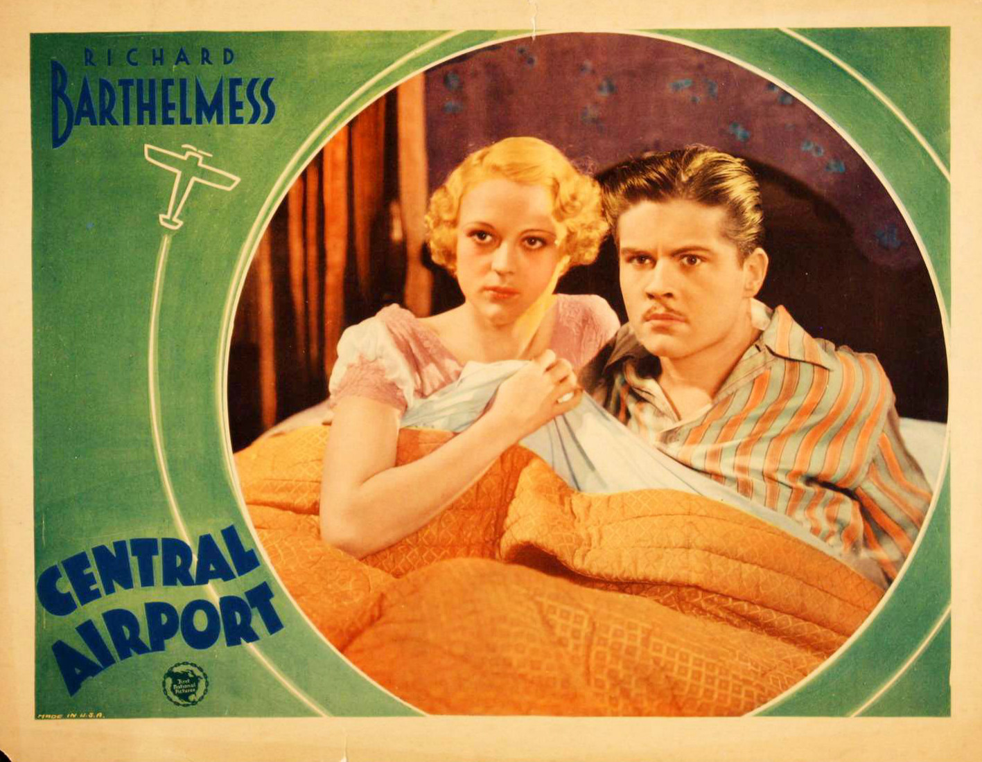 Lobby card for the American pre-Code drama film Central Airport (1933).